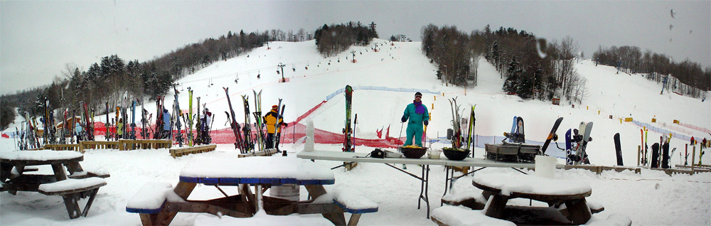 Base of Marquette Mountain, MArquette, Michigam, Feb. 2006. Photo by Richard C. Drew